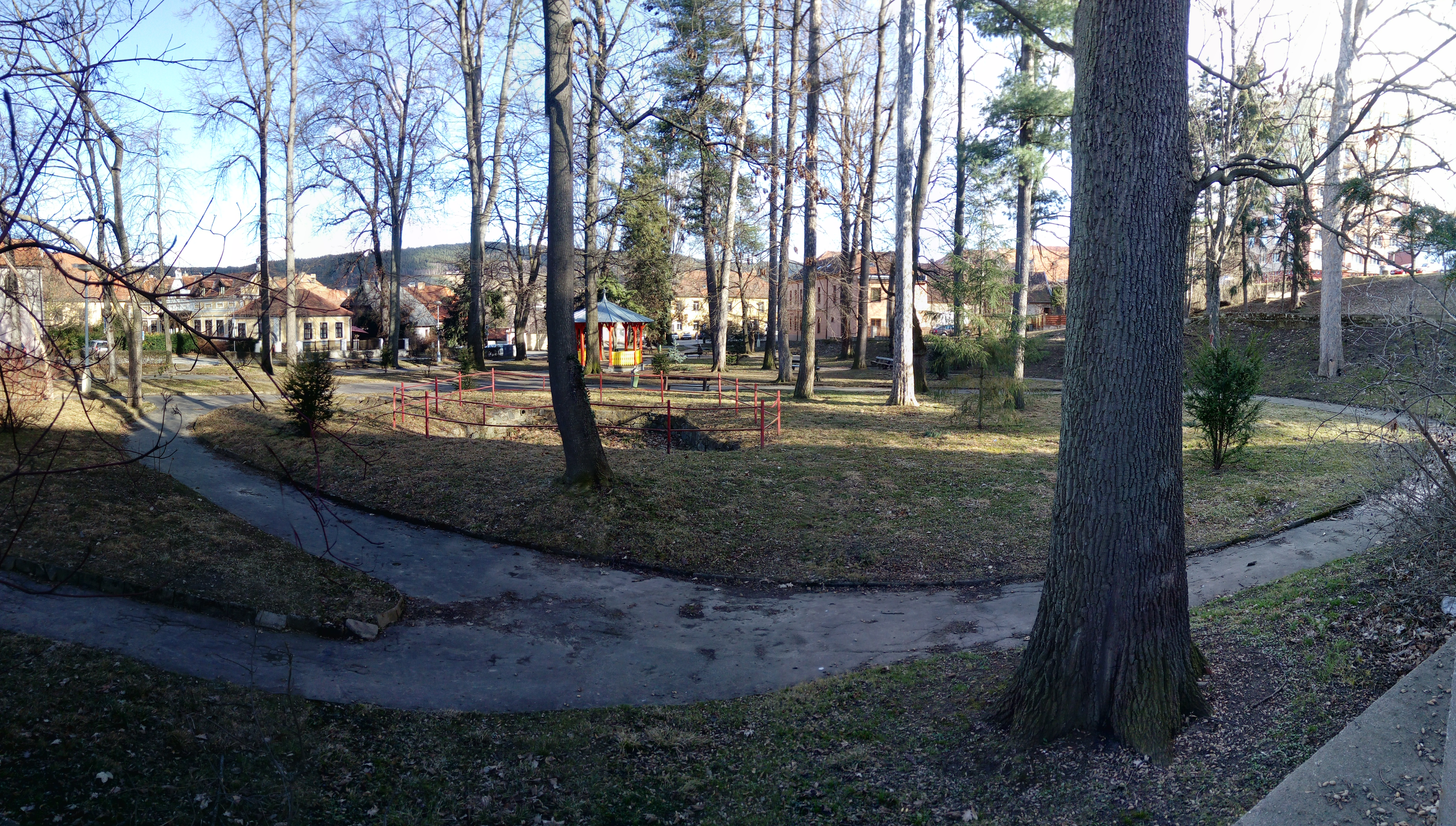 Štěpánčin park (Stephanie's Park), Prachatice, south Bohemia, Czech Republic, as seen from the north